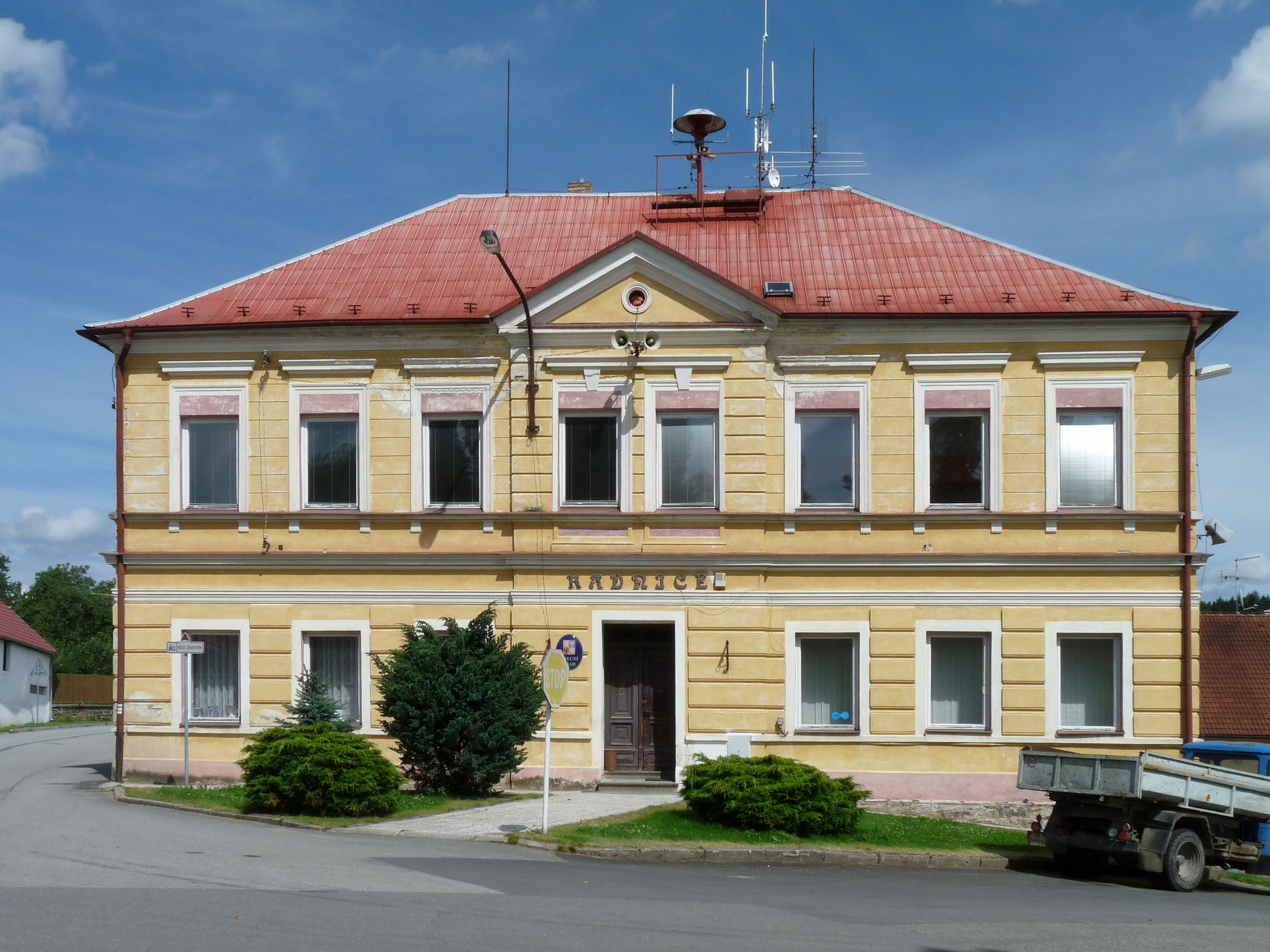 Municipal office in the village of Choustník in Tábor District, Czech Republic.